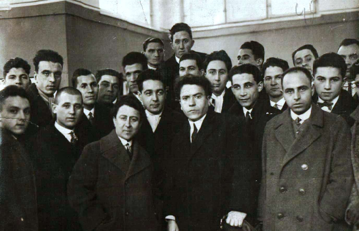 ulgarian painters